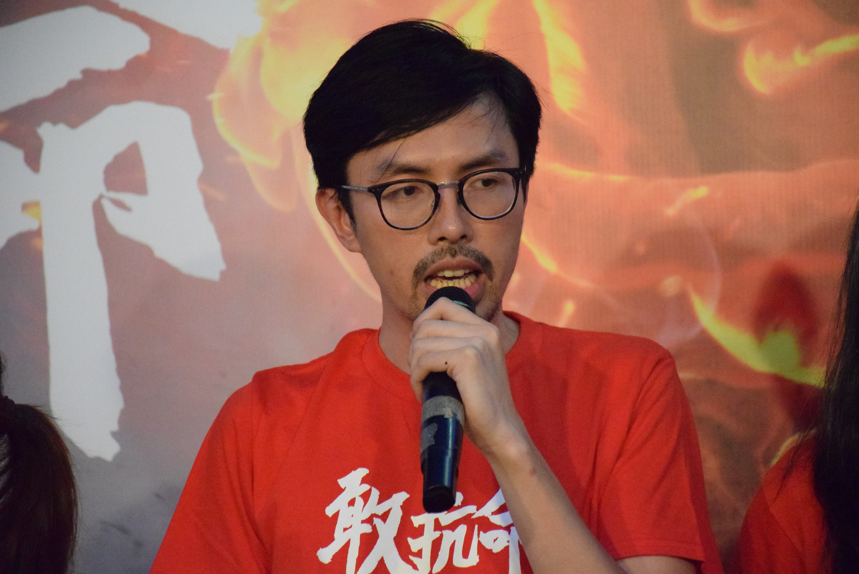 Chairman of the League of Social Democrats Ng Man-yuen